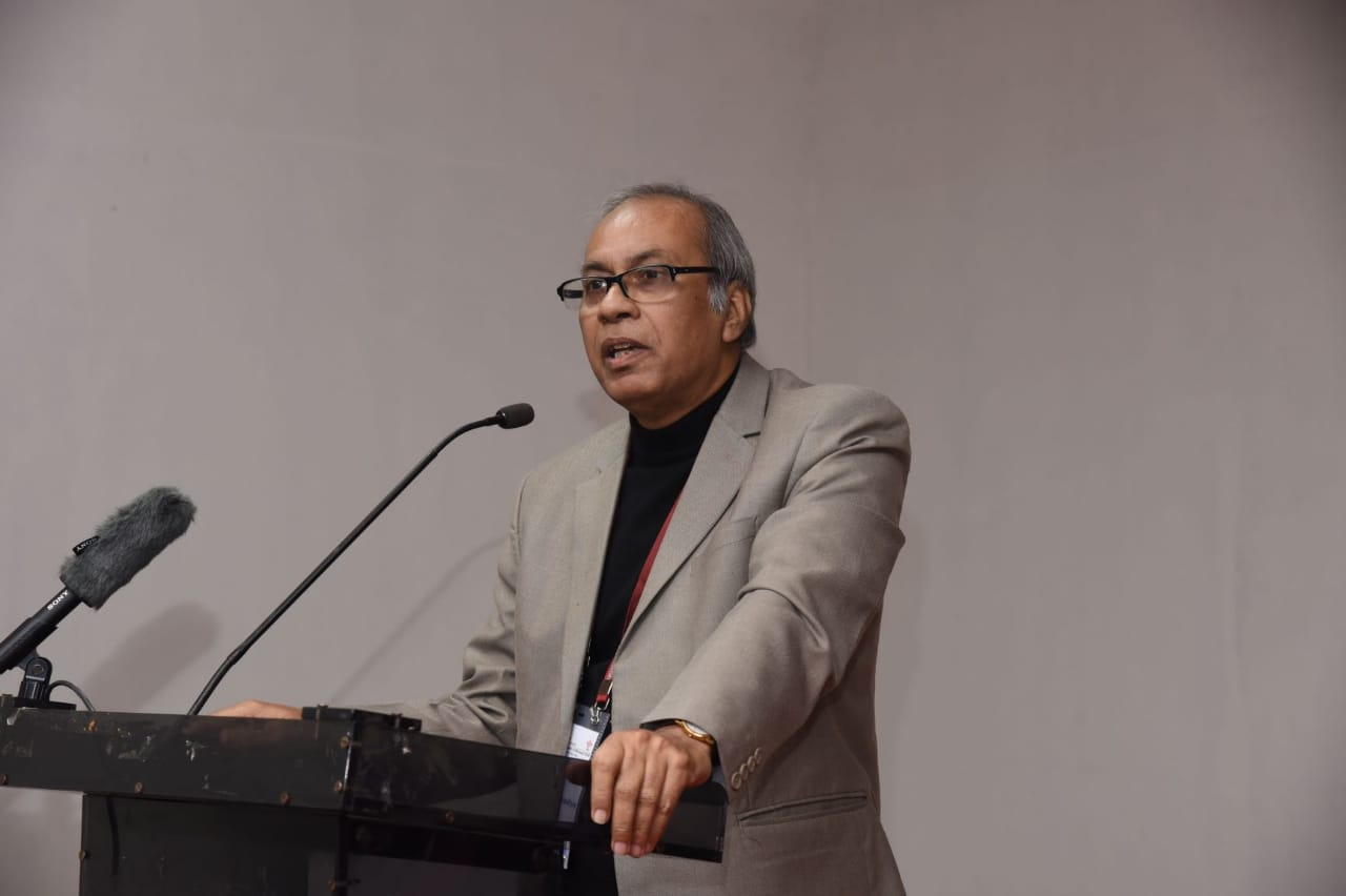 Delivering his lecture in Sahitya Akademi, New Delhi